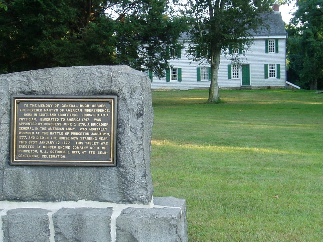 Memorial to Hugh Mercer and Thomas Clarke House, Princeton Battlefield.